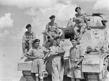 WESTERN DESERT, EGYPT. 1942-09-16. THE CREW OF HEADQUARTER TANK OF THE ROYAL SCOTS GREYS, A FAMOUS BRITISH CAVALRY REGIMENT NOW MECHANISED AND OPERATING GENERAL GRANT TANKS IN THE DESERT FIGHTING. LIEUTENANT COLONEL FIENNES, COMMANDING THE REGIMENT, IS CENTRE, FRONT ROW.